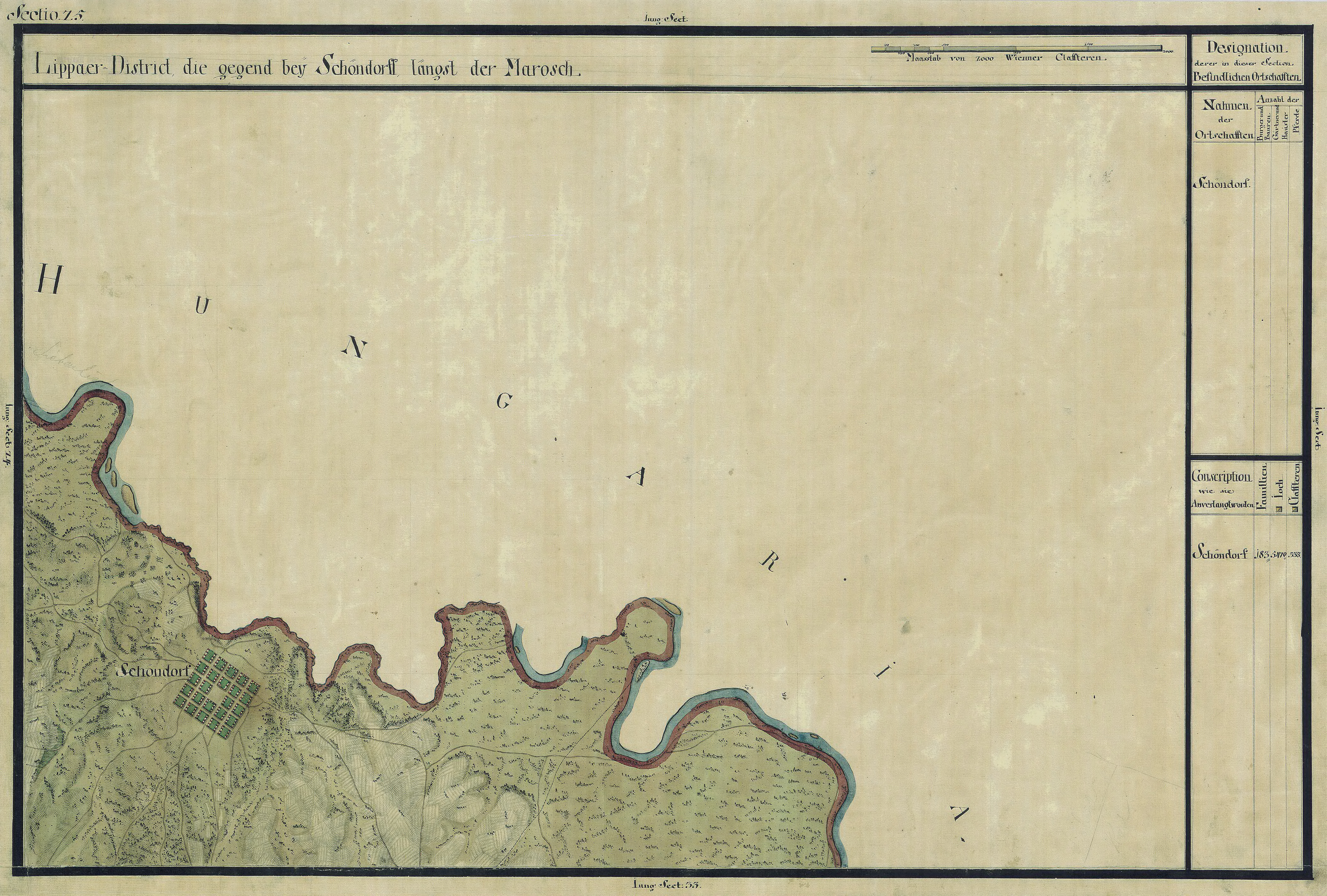 The Banat region in the cadastral maps: Josephinische Landesaufnahme, 1769-72. Josephinische Landaufnahme pg025